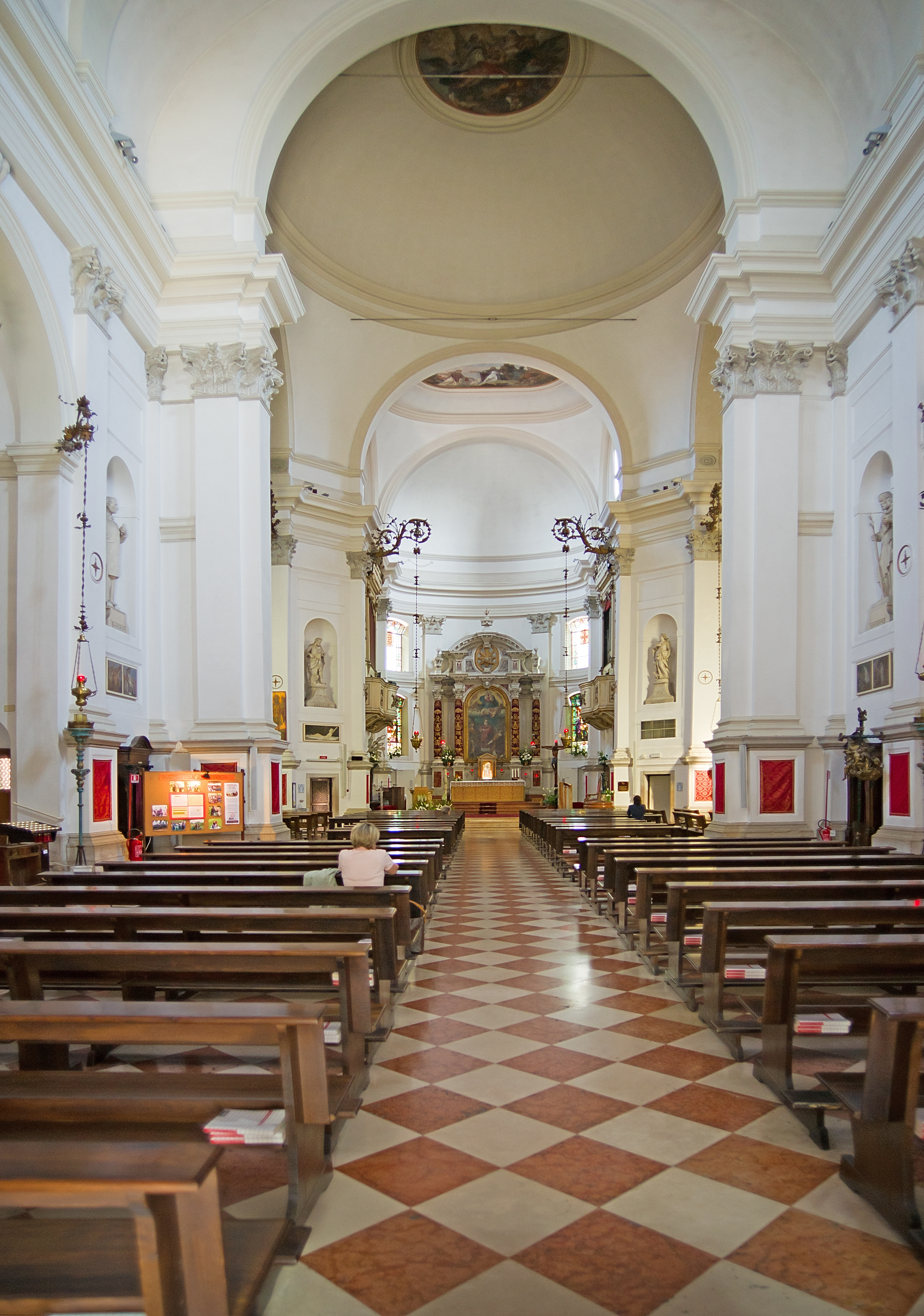 San Lorenzo - Cathedral of Mestre - Interior